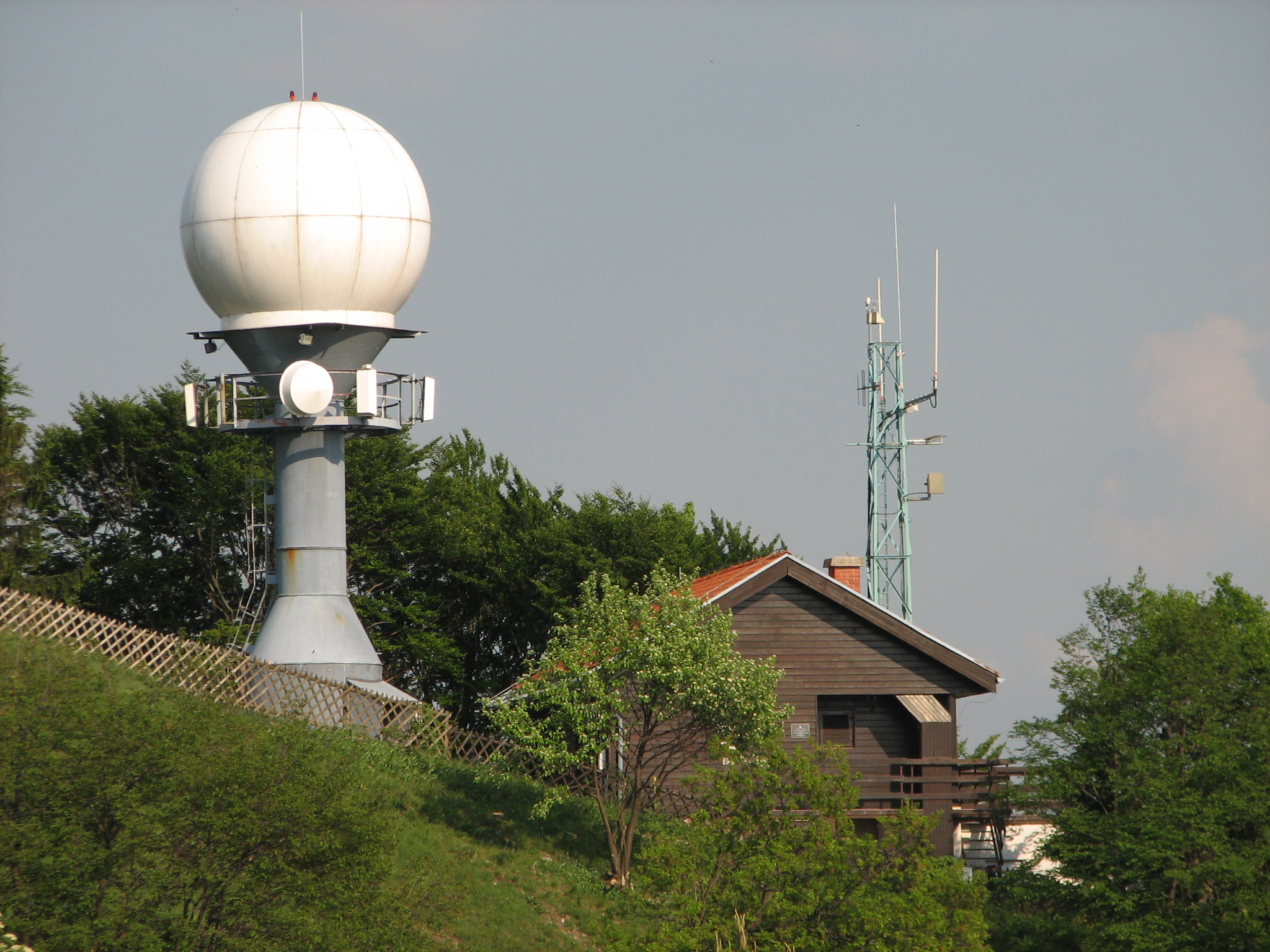 The weather radar at Mt. Lisca in the Municipality of Sevnica, central Slovenia. Model: WR 100-2/77, manufactured by Enterprise Electronics Corp. from Alabama, US. The wavelength of its waves is 5.3 cm.[1]